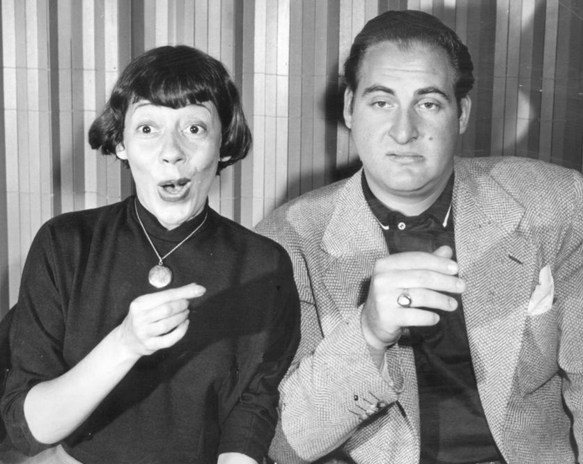 Promotional photo of Imogene Coca and Sid Caesar from Your Show of Shows, 1952. This photo was produced prior to 1978 and has no copyright markings. The show was on television from 1950 to 1954; after that time, Caesar had a show called Caesar's Hour. The press release on the back of the photo says this is for Your Show of Shows. It appears that the 1952 date stamp would be correct; the image certainly is pre-1978.